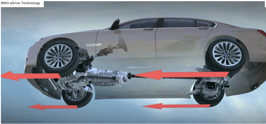 BMW xDrive technology blueprint